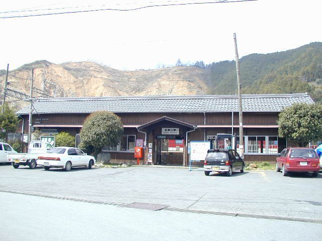 JR & Kintetsu Yoshinoguchi Station in Gose, Nara prefecture, Japan